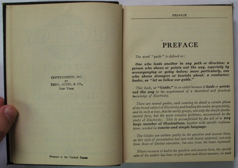 Photo of the copyright page of the 1917 Hawkins Electrical Guide. This body of work contains extensive electrical diagrams and images that would be useful to expand the quality of articles on Wikipedia.